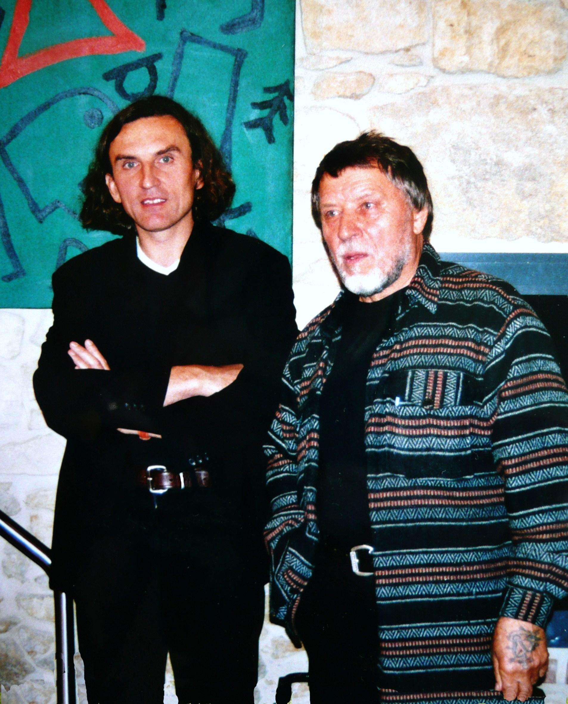 Father Alexey and son Igor jointly at an art exhibition in Basel, switzerland